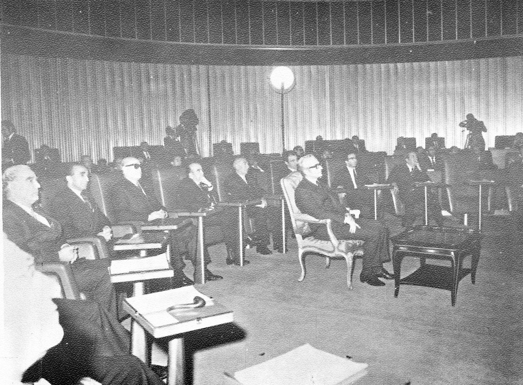 Shahanshah in historical session of OPEC conference that took place in Majlis Sena in Tehran